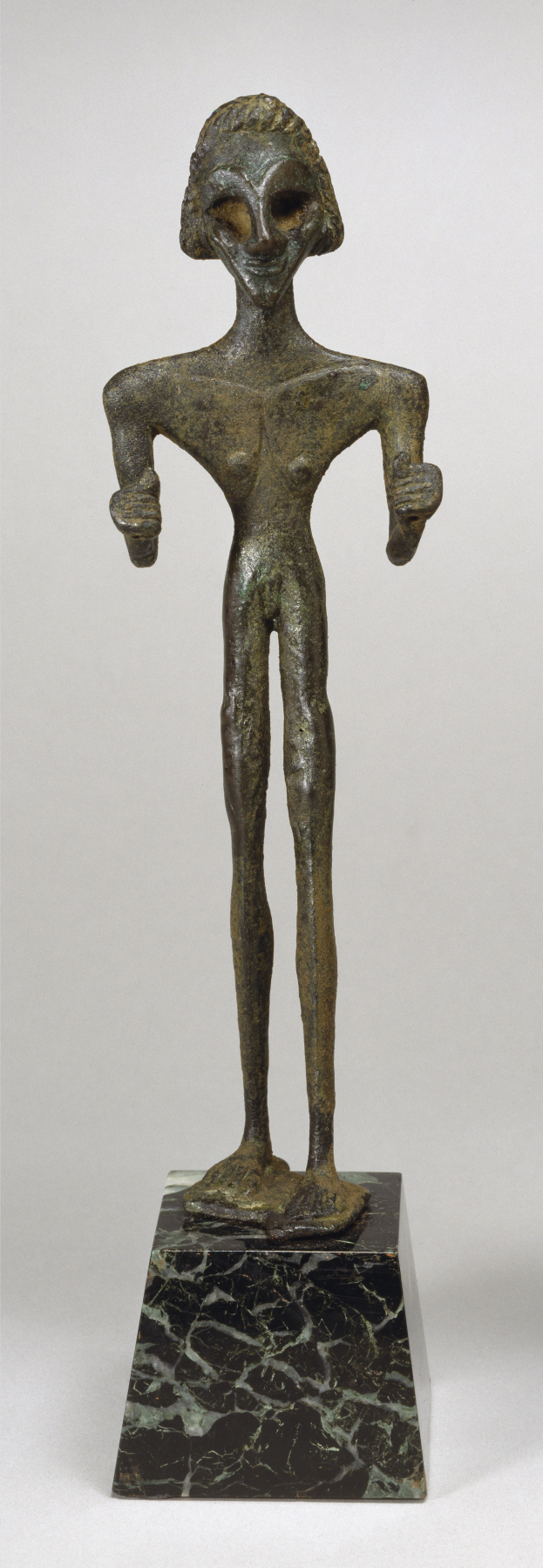 This solid cast bronze figurine served as a votive offering, and represents the Canaanite war god, Baal, bringer of the autumnal rains and suppressor of the destructive flood waters. He probably wore a gold skirt and may have carried a mace in one of his clenched fists.